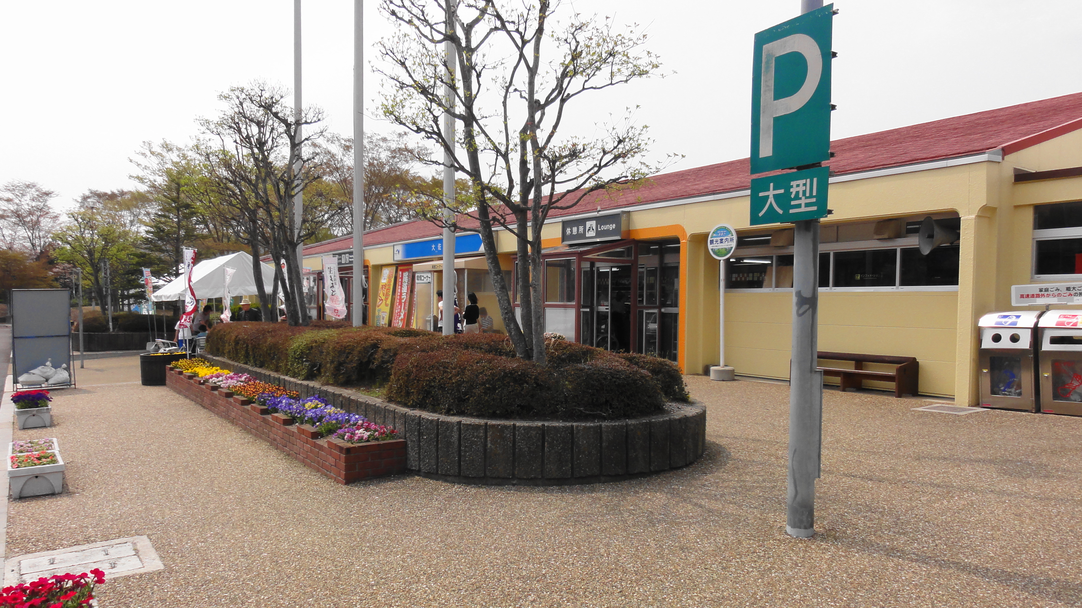 Osa Service Area,Okayama prefecture,Japan